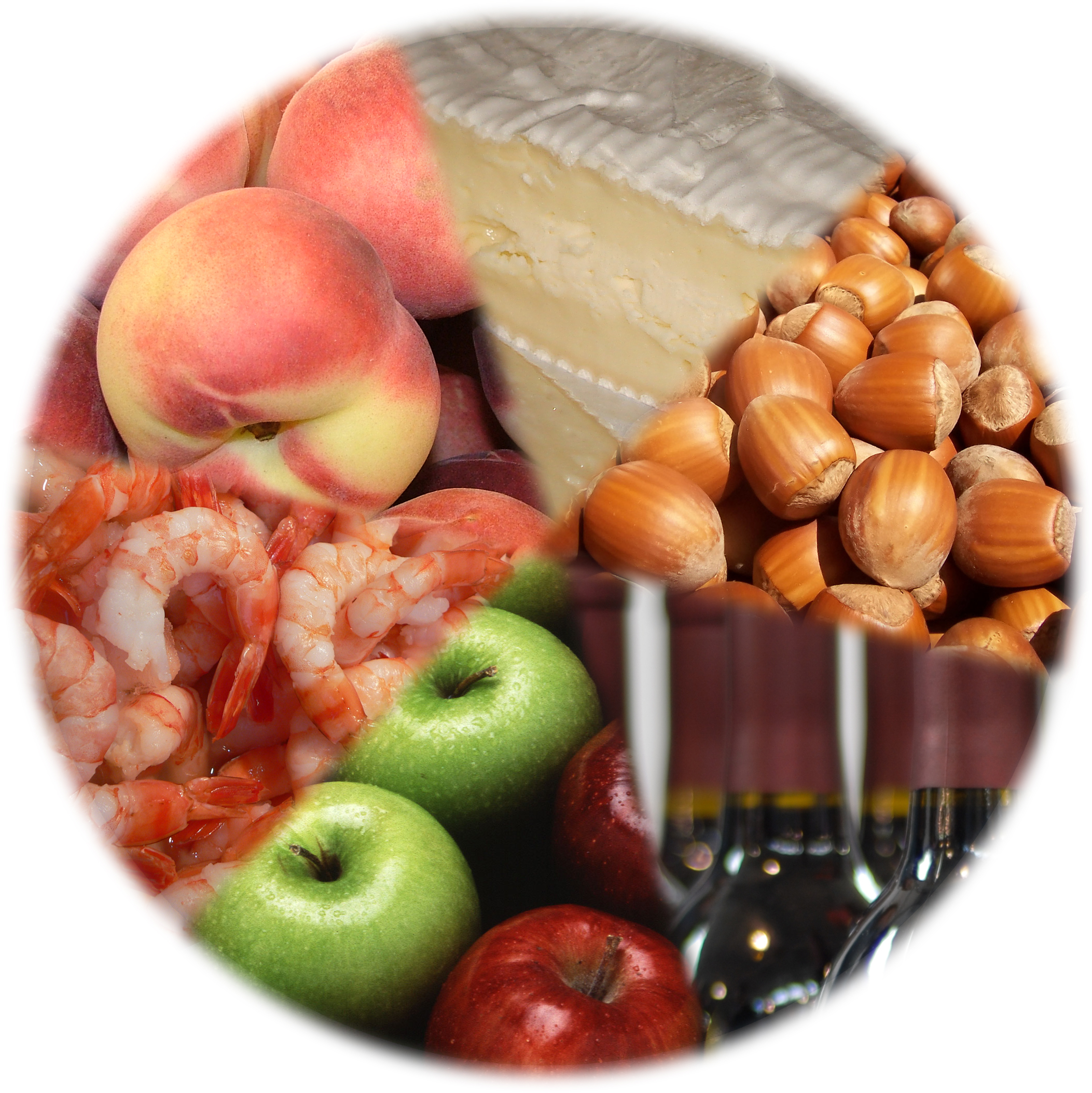 Food types likely to cause allergic reactions in adults in Sweden: drupe, cheese, nuts, wine, apples, and shellfish.